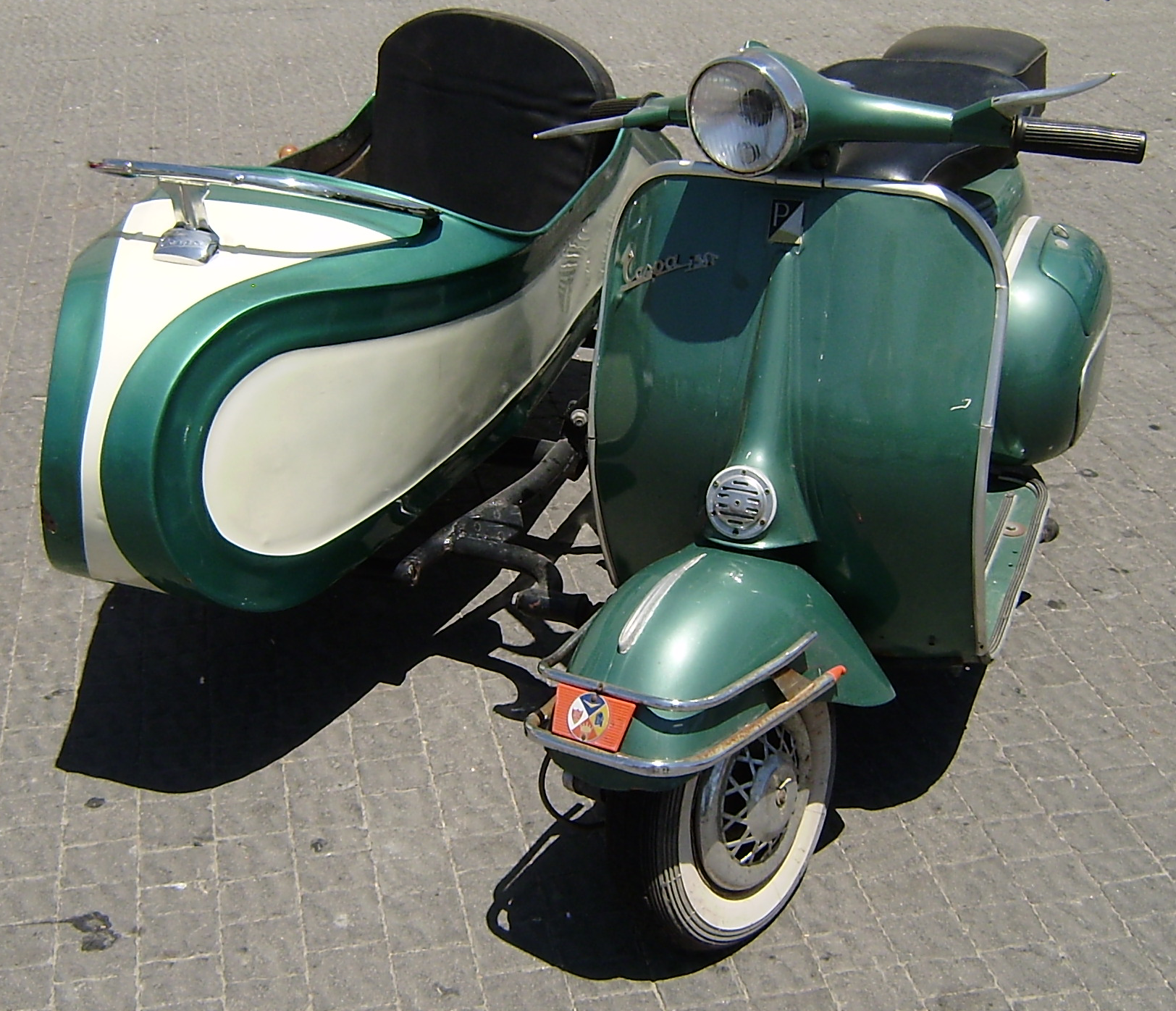 Vespa scooter with a sidecar, near Tel-Kudadi, Tel-Aviv, Israel.